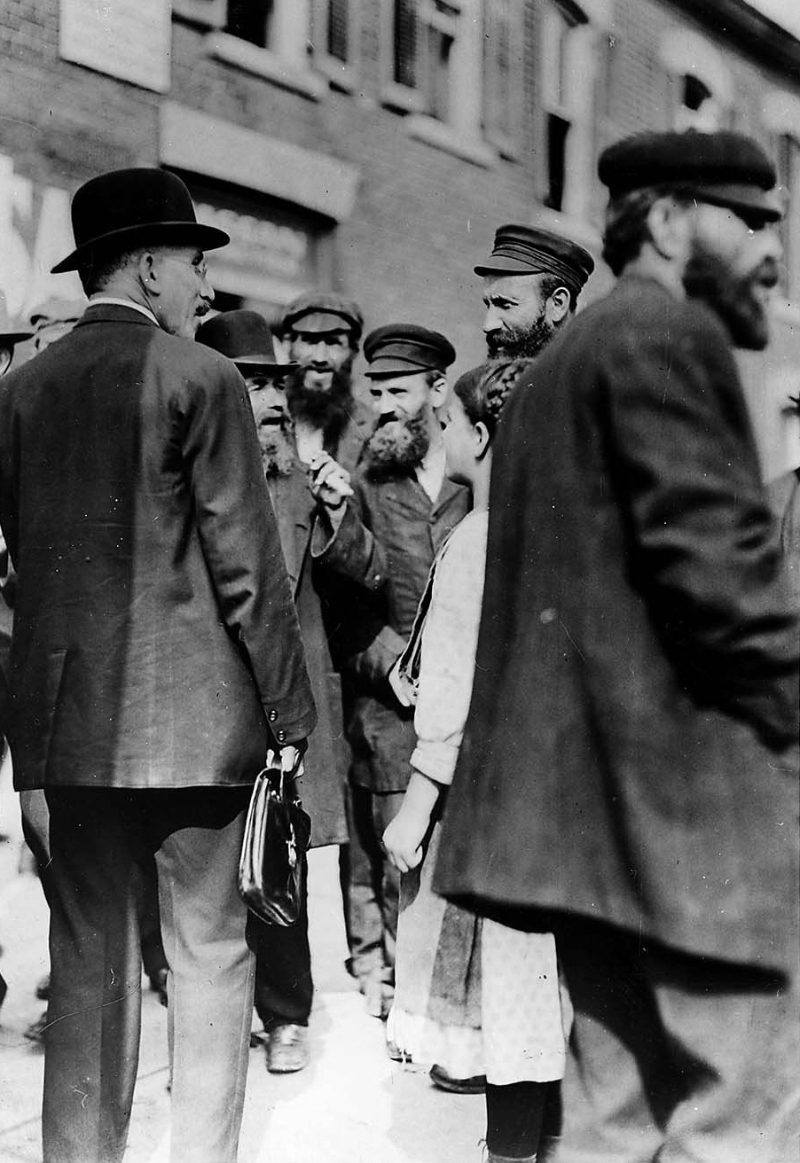 Jewish missionary Henry Singer in the Ward, Toronto, Canada.